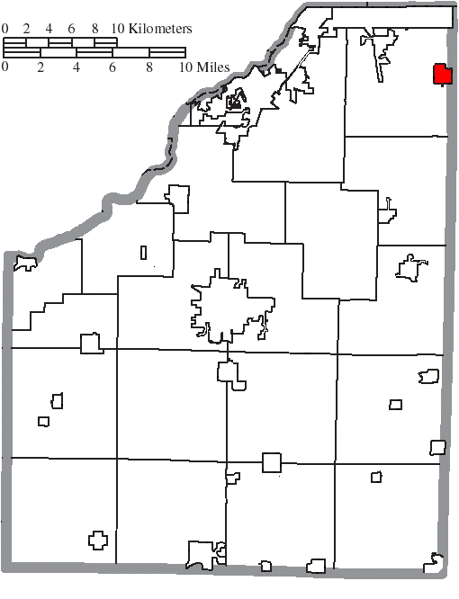 Map of the municipal and township boundaries of Wood County, Ohio, United States, as of the 2000 census, with the location of the village of Millbury highlighted. Township borders are shown only in unincorporated areas in order to differentiate incorporated and unincorporated areas more clearly.